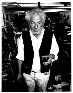 atelier